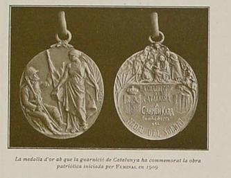 Gold medals as a gratitude for Feminal's money collection for catalan soldiers